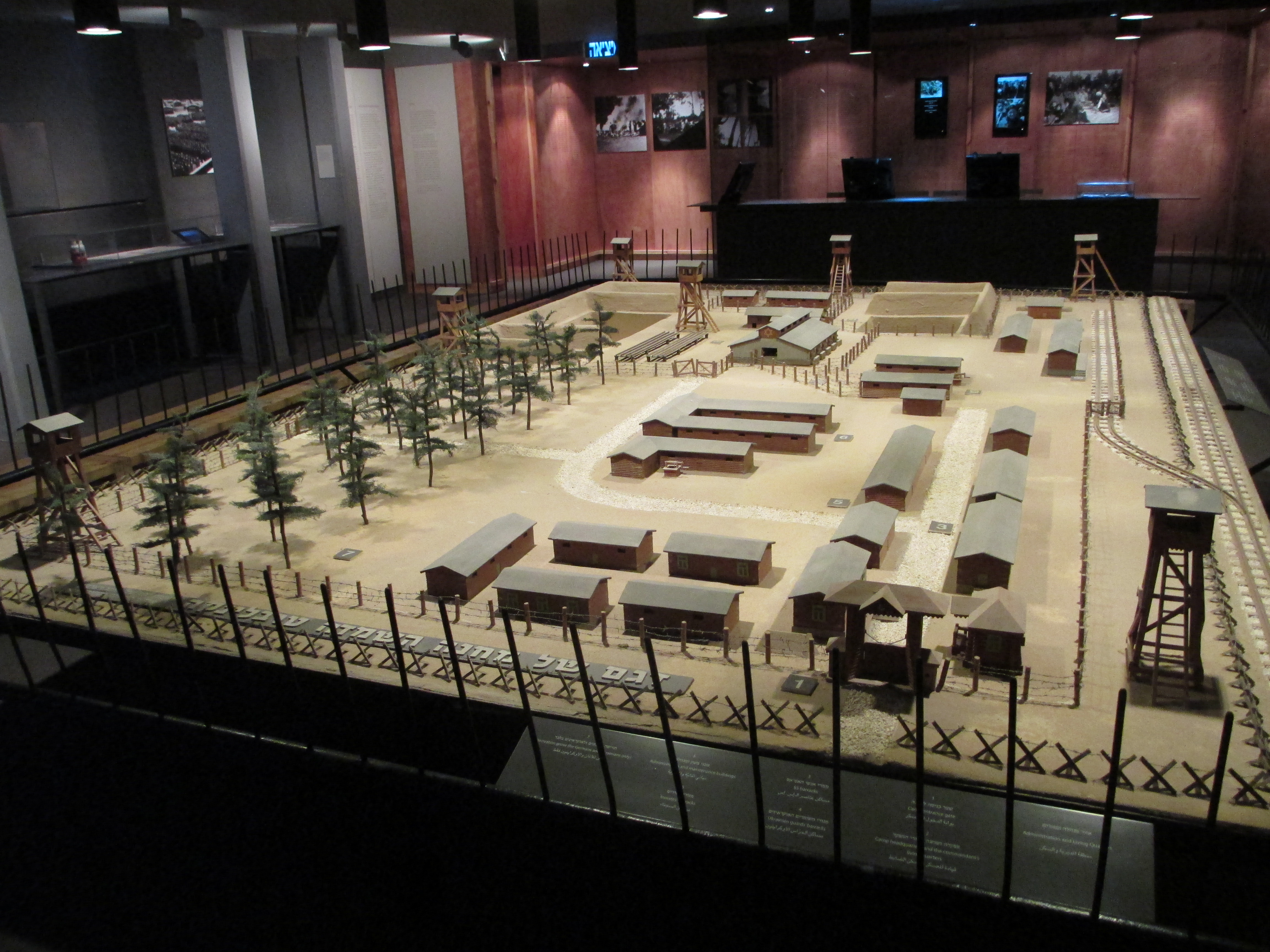 Model of Treblinka Death Camp